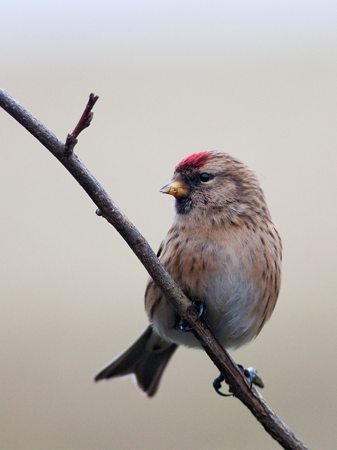 A female Lesser Redpoll in Lochwinnoch, Renfrewshire, Scotland.